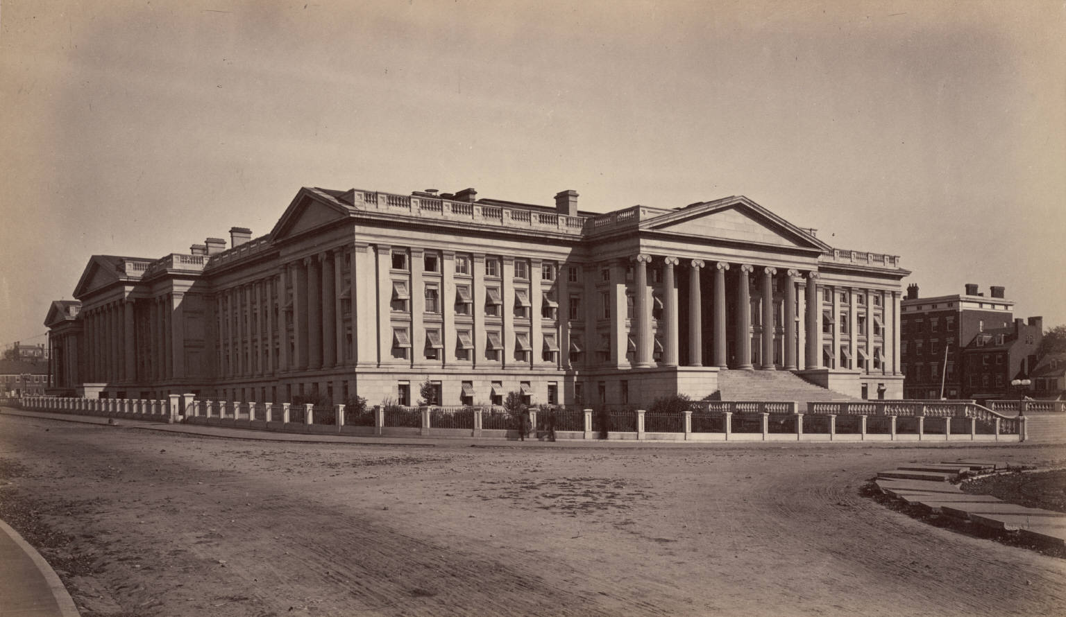 Collection: A. D. White Architectural Photographs, Cornell University Library Accession Number: 15/5/3090.00245 Title: U.S. Treasury Department Architect: Robert Mills (American, 1781-1855) Building Date: 1833-1869 Location: North and Central America: United States; District of Columbia, Washington Materials: albumen print Image: 7 7/8 x 13 1/2 in.; 20.0025 x 34.29 cm Provenance: Transfer from the College of Architecture, Art and Planning Persistent URI: There are no known U.S. copyright restrictions on this image. The digital file is owned by the Cornell University Library which is making it freely available with the request that, when possible, the Library be credited as its source. We had some help with the geocoding from